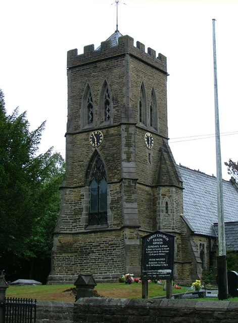 West tower of Christ Church parish church, Eaton, near Congleton, Cheshire East, seen from the southwest